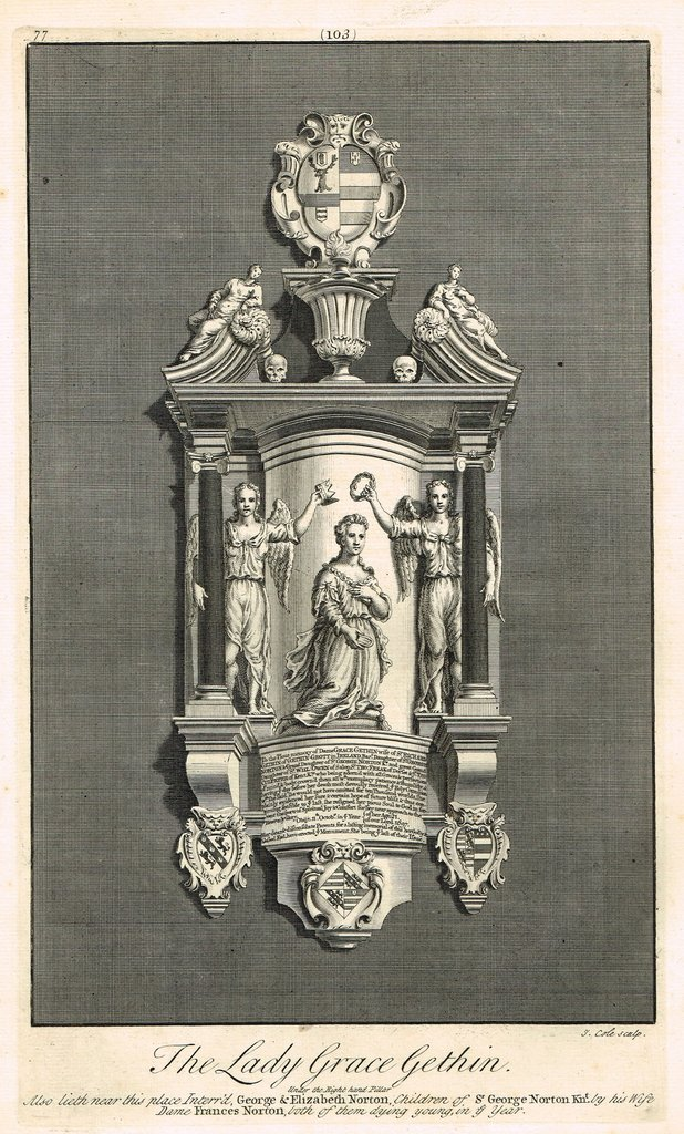 Grace Gethin memorial in Westminster Abbey - a 1723 engraving by James Cole